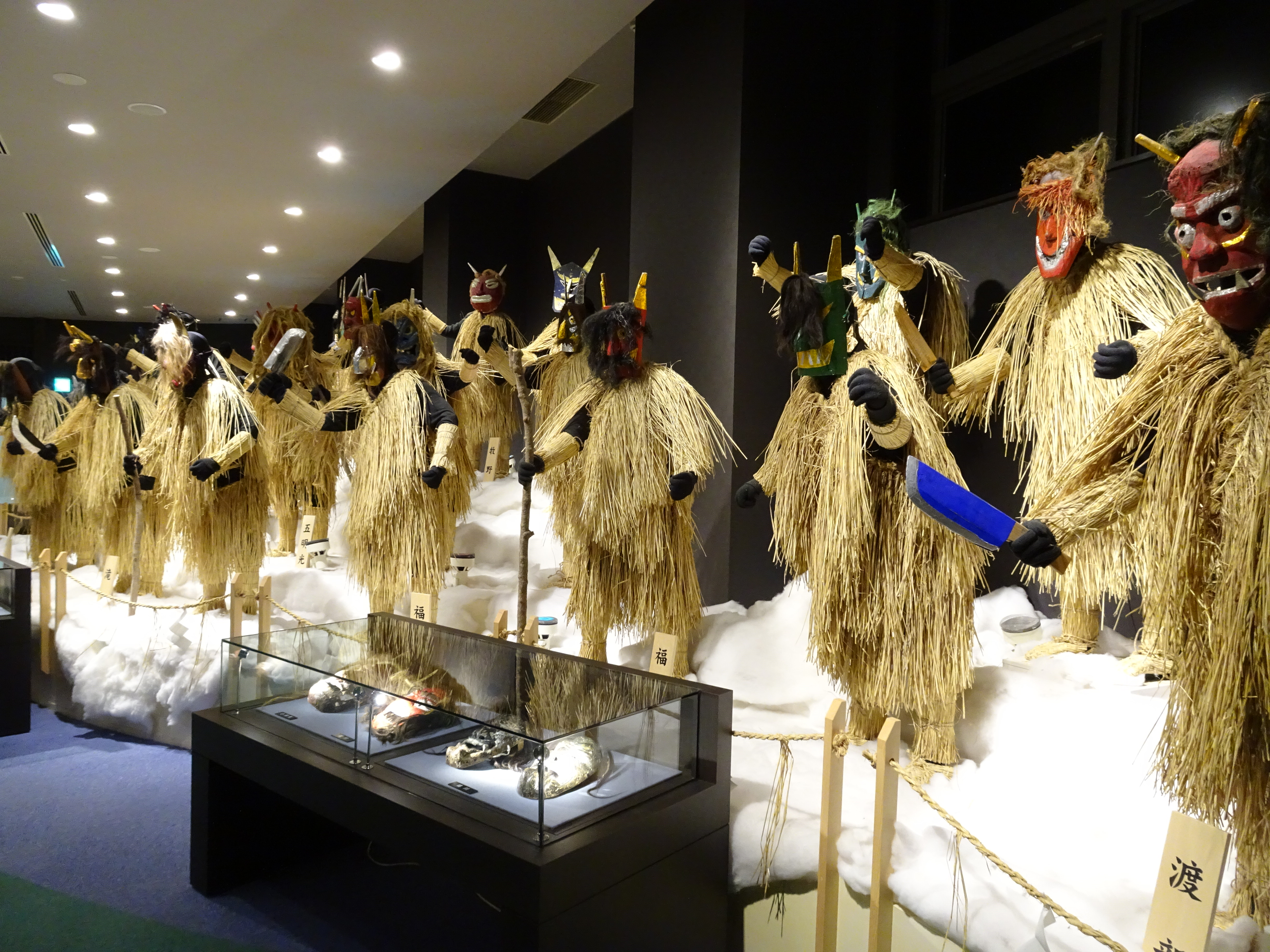 Namahage, the Japanese traditional demonlike being in Akita prefecture. This photo was taken at Namahage-kan (Namahage House) in Oga City, Akita Prefecture.